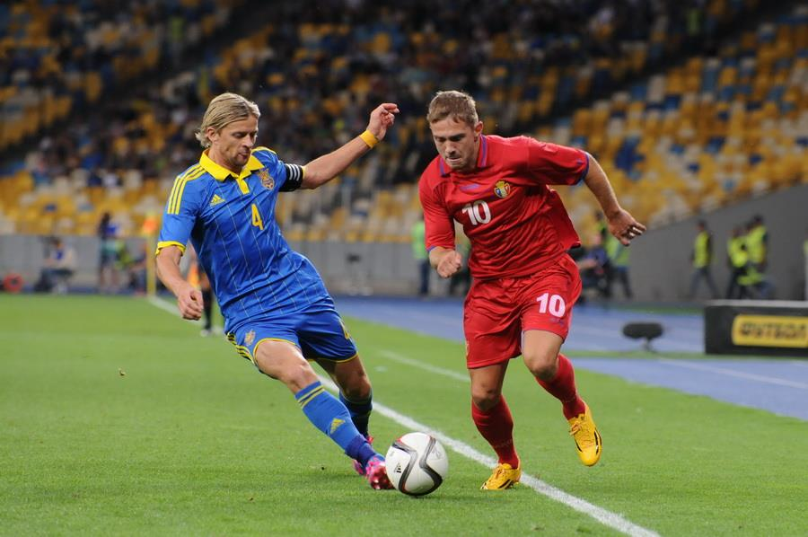 Anatoliy Tymoshchuk (left, nr.4) and Alexandru Dedov (right, nr. 10) at the match Ukraine 1-0 Moldova, on 3 September 2014